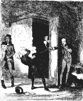 19th century illustration of assassination of British Prime Minister Spencer Perceval by John Bellingham.